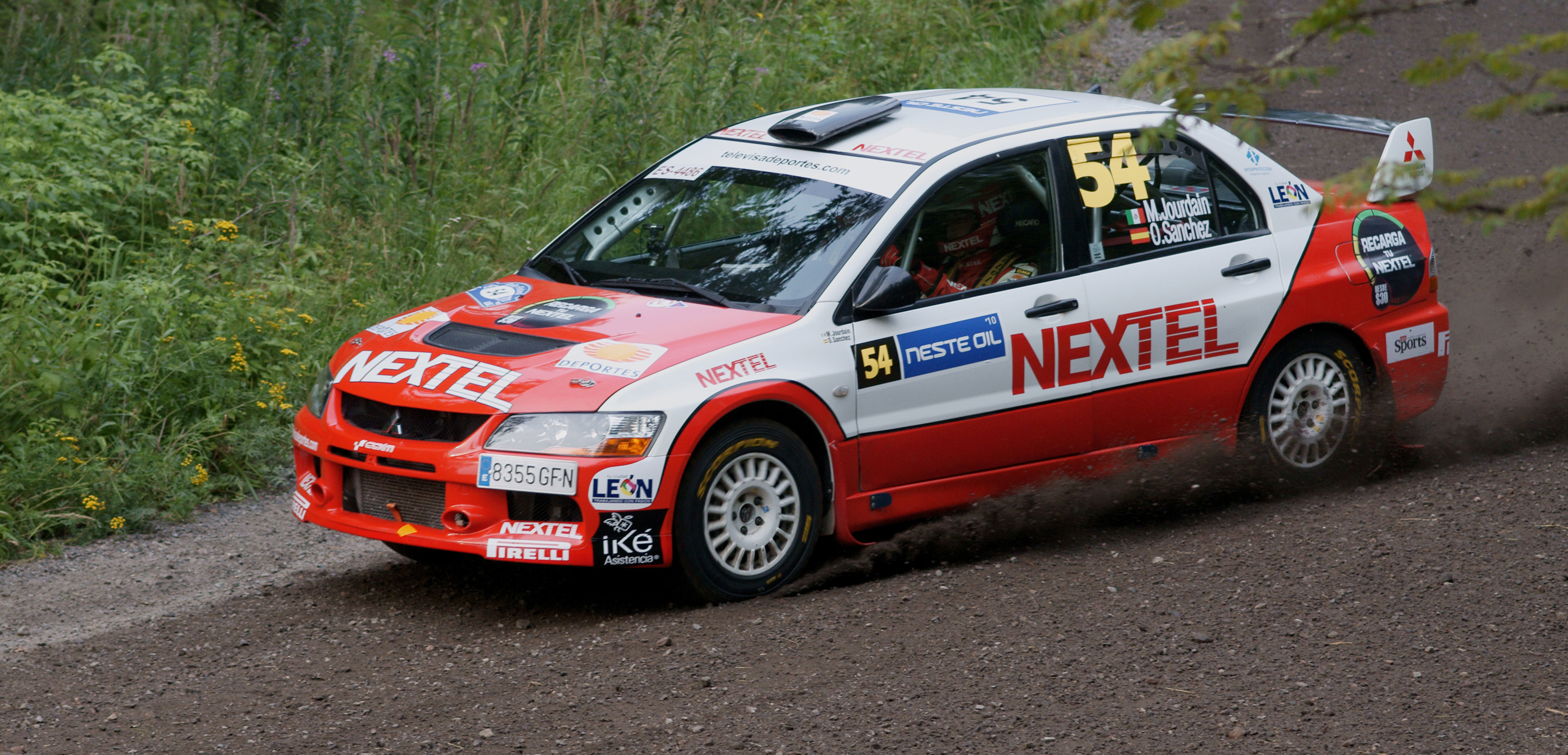 Michel Jourdain driving at Laajavuori special stage, Rally Finland 2010.